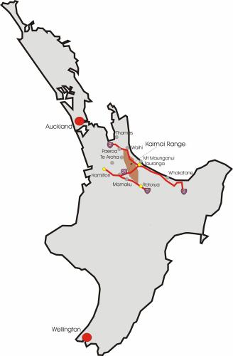 Map of North Island New Zealand, Kaimai Range